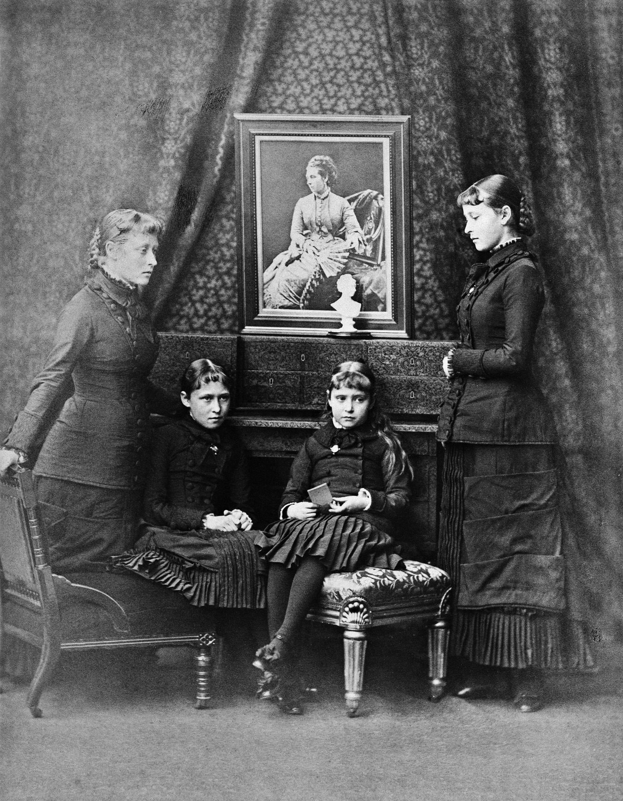 Princesses Victoria, Elizabeth, Irene, and Alix of Hesse, who grieve for her mother.